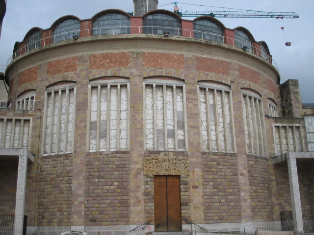 Church of the Virgen Grande (Big Virgin), Torrelavega, Cantabria.